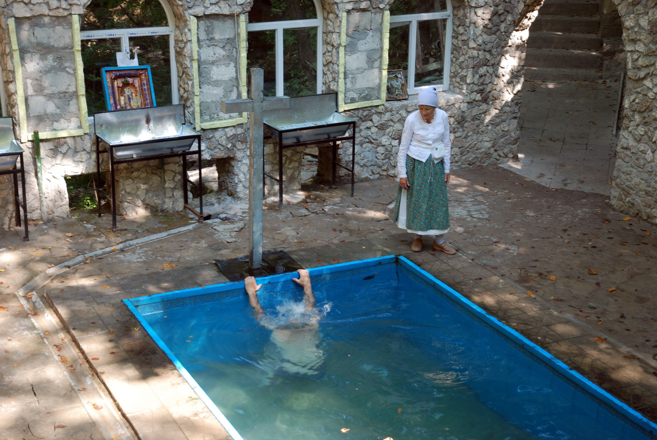 Saharna Monastery, bath